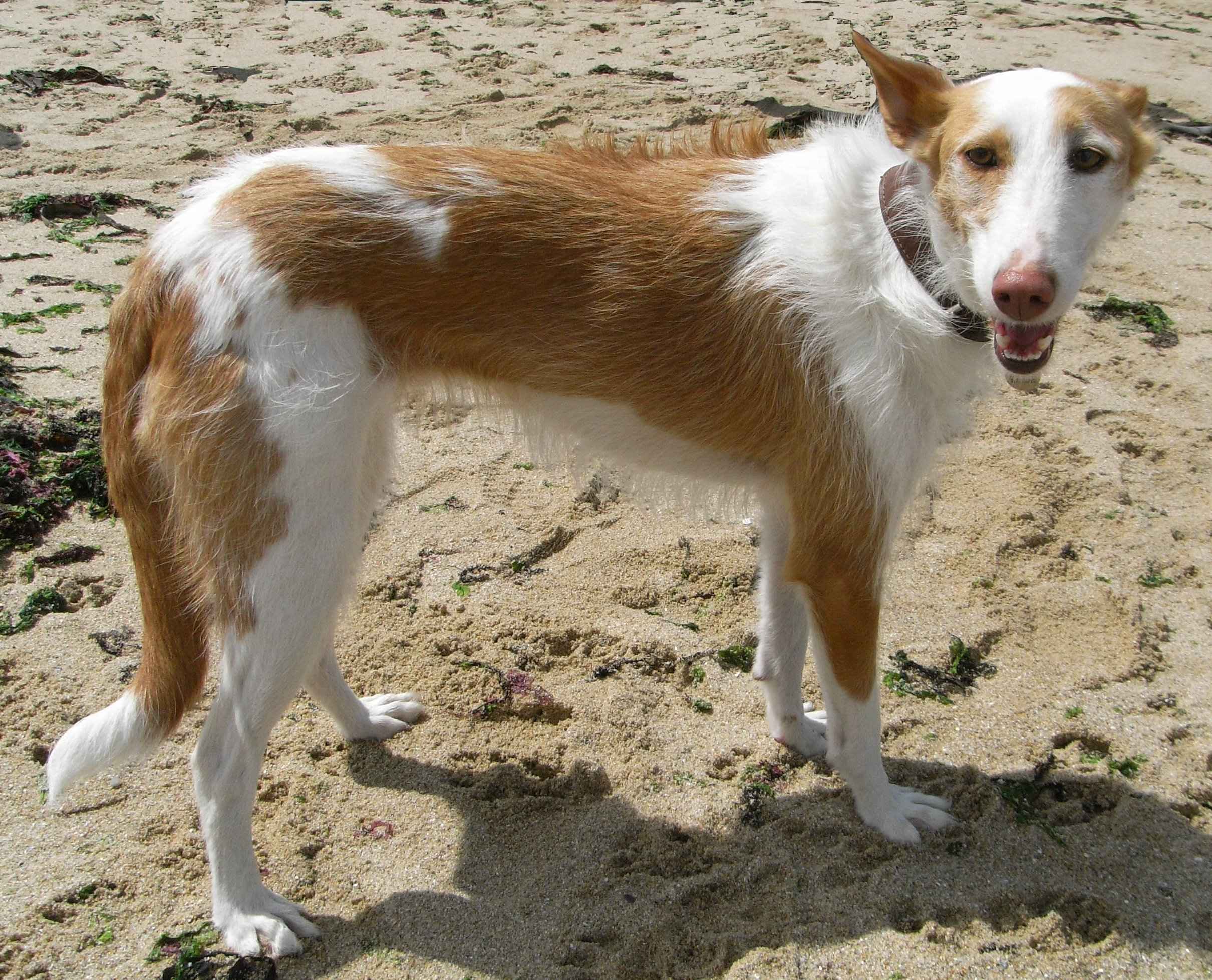 Ibizan Hound - female at long coat